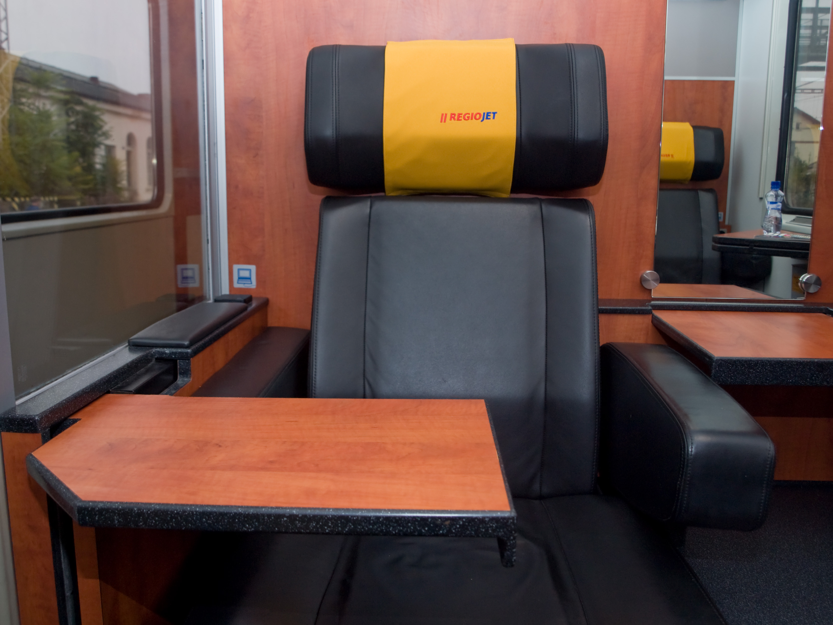 Interior of coach, train of RegioJet at Praha-Smíchov, severní nástupiště